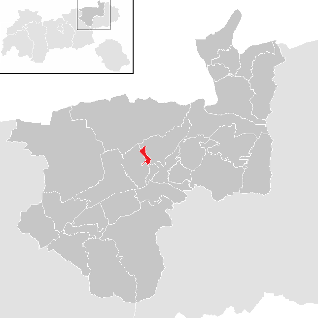 District Kufstein